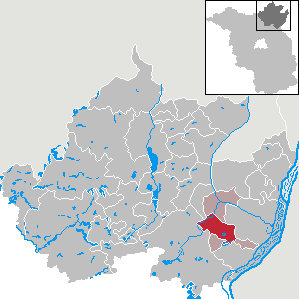 Mark Landin in Brandenburg (Country) - District Uckermark